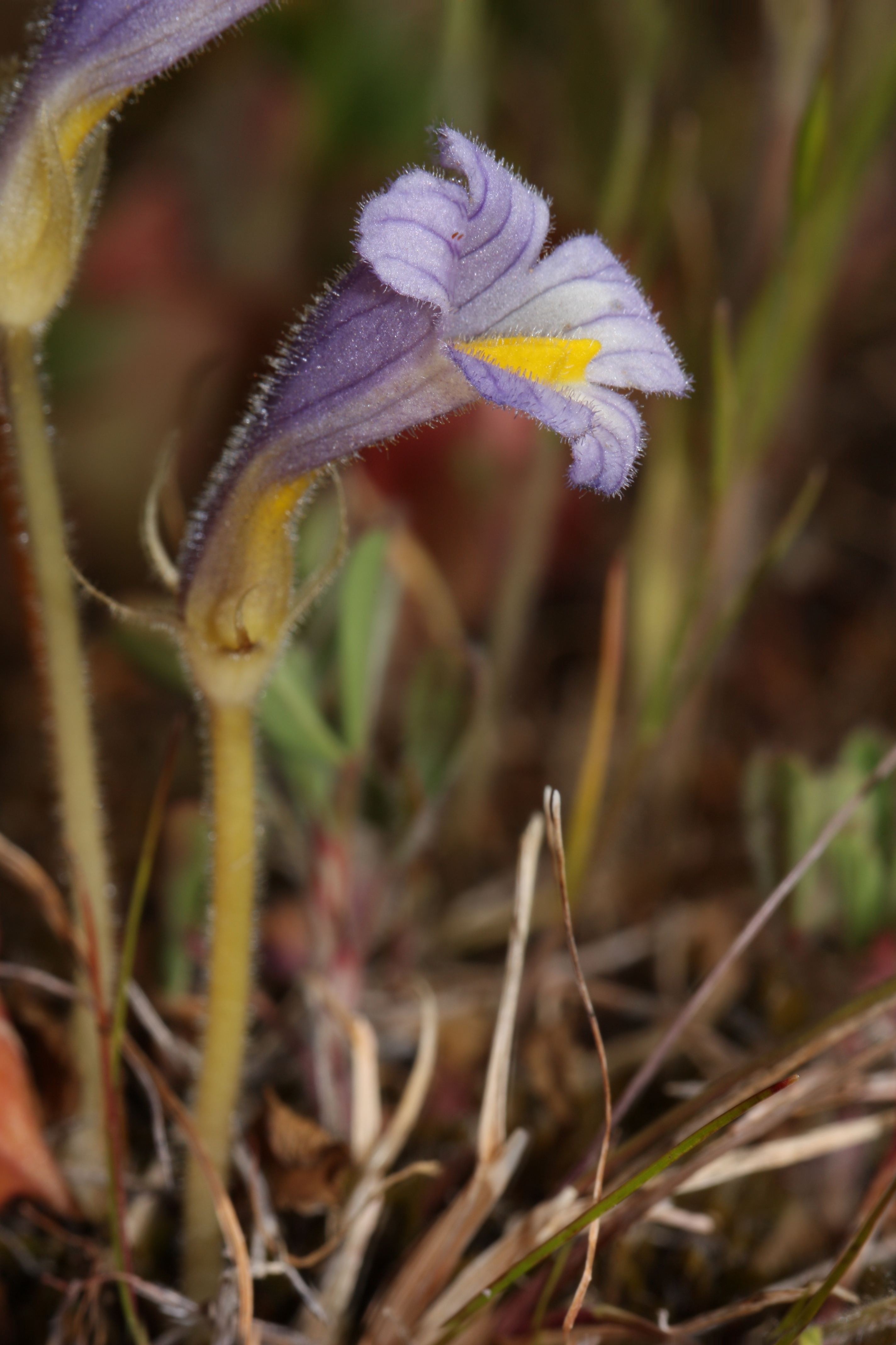 One-flowered Broomrape, Naked Broomrape; Focus stacking (using Helicon Focus).Please see "Other versions" for source images. Viewpoint location: Rowena Plateau Trail, Mayer State Park Viewpoint elevation: 185 meter (608 ft) Location source: Garmin GPSmap 60CSx Location Datum: WGS84